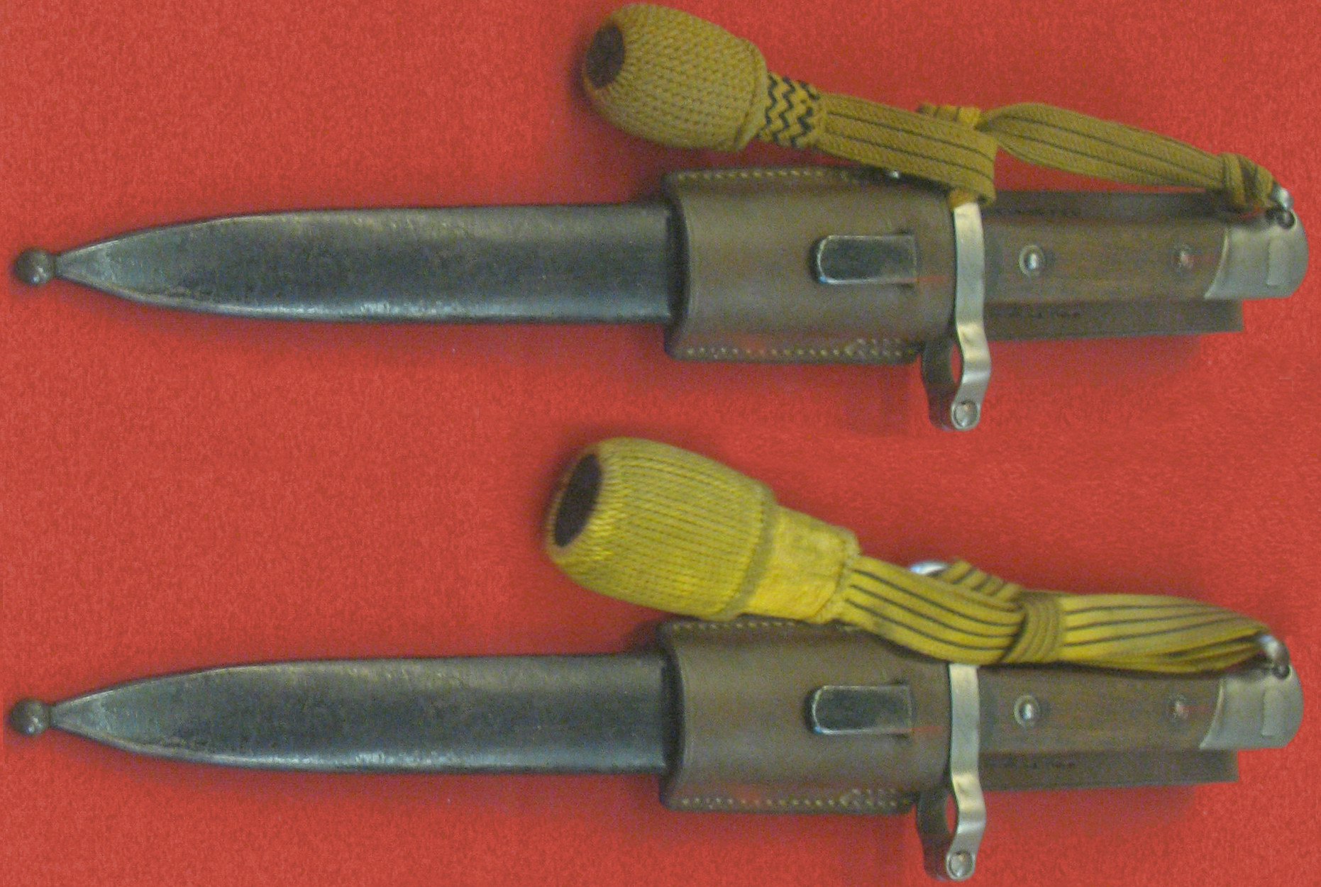 Austro-Hungarian trodels tie on M1888 bayonetsTop: binding style for non-commissioned officersBottom: binding style for officers